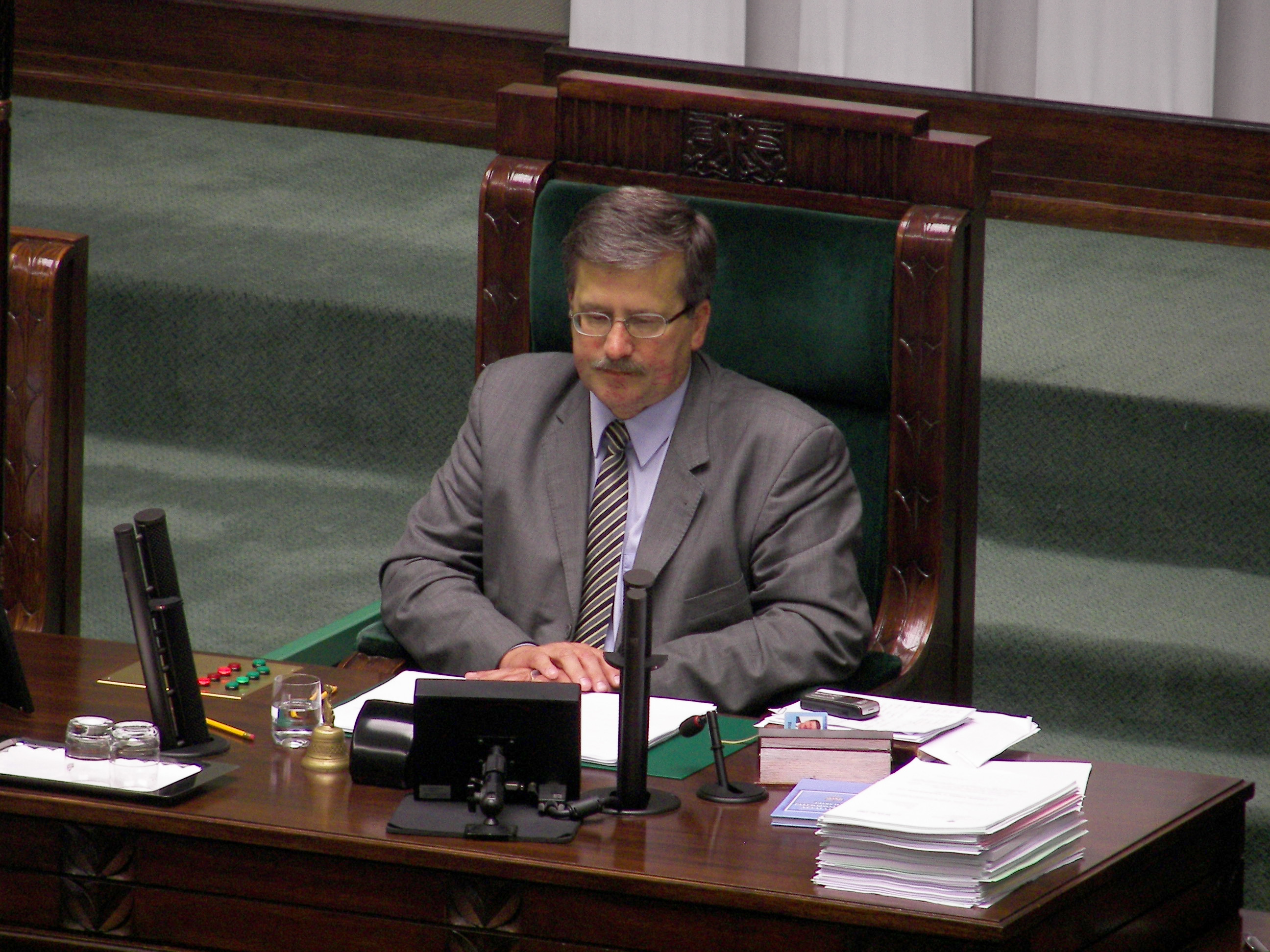 Poland's parliament called early elections (Fri Sep 7, 2007)